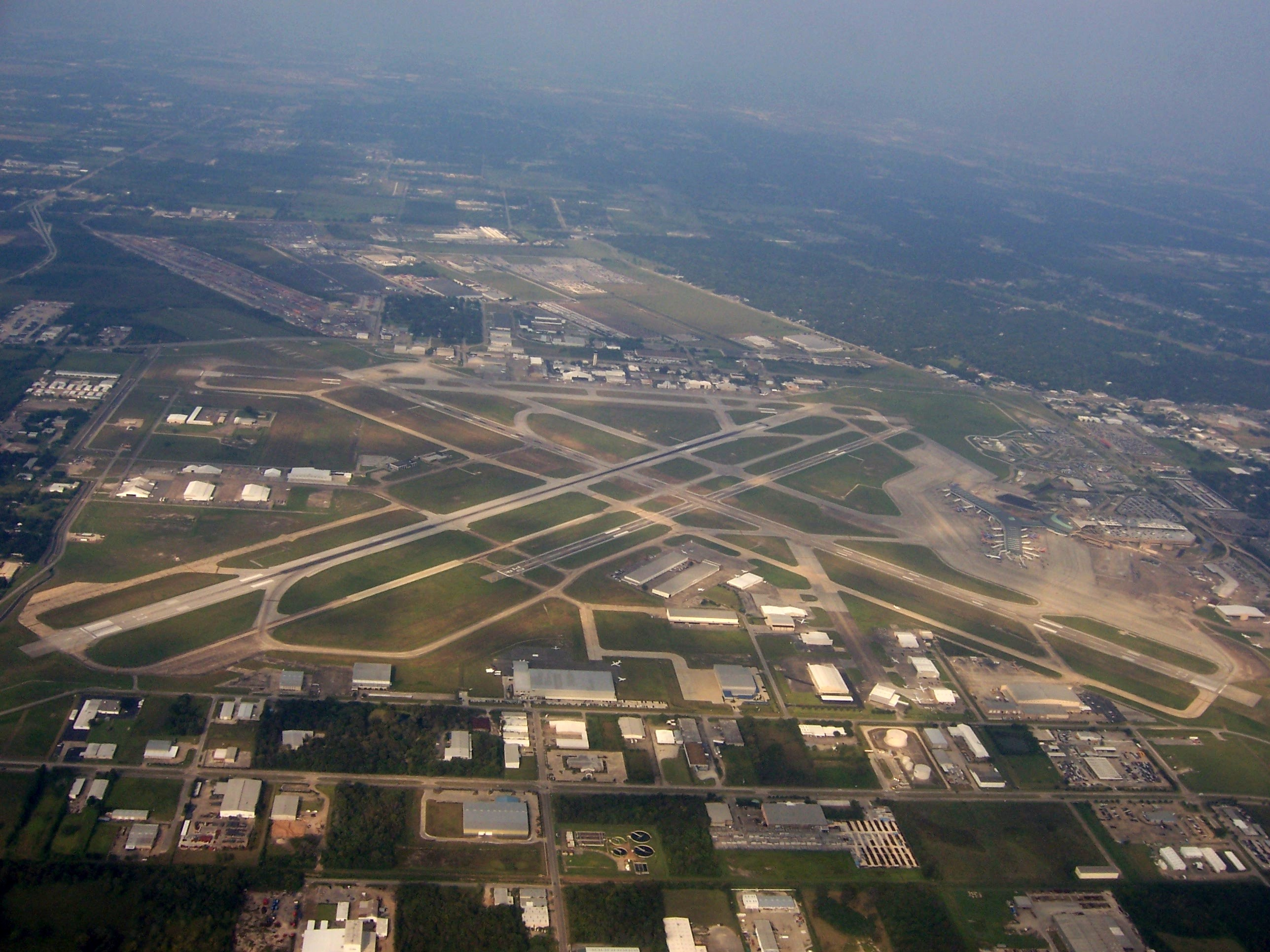 Aerial view of the William P. Hobby Airport, located in Houston, Texas USA.